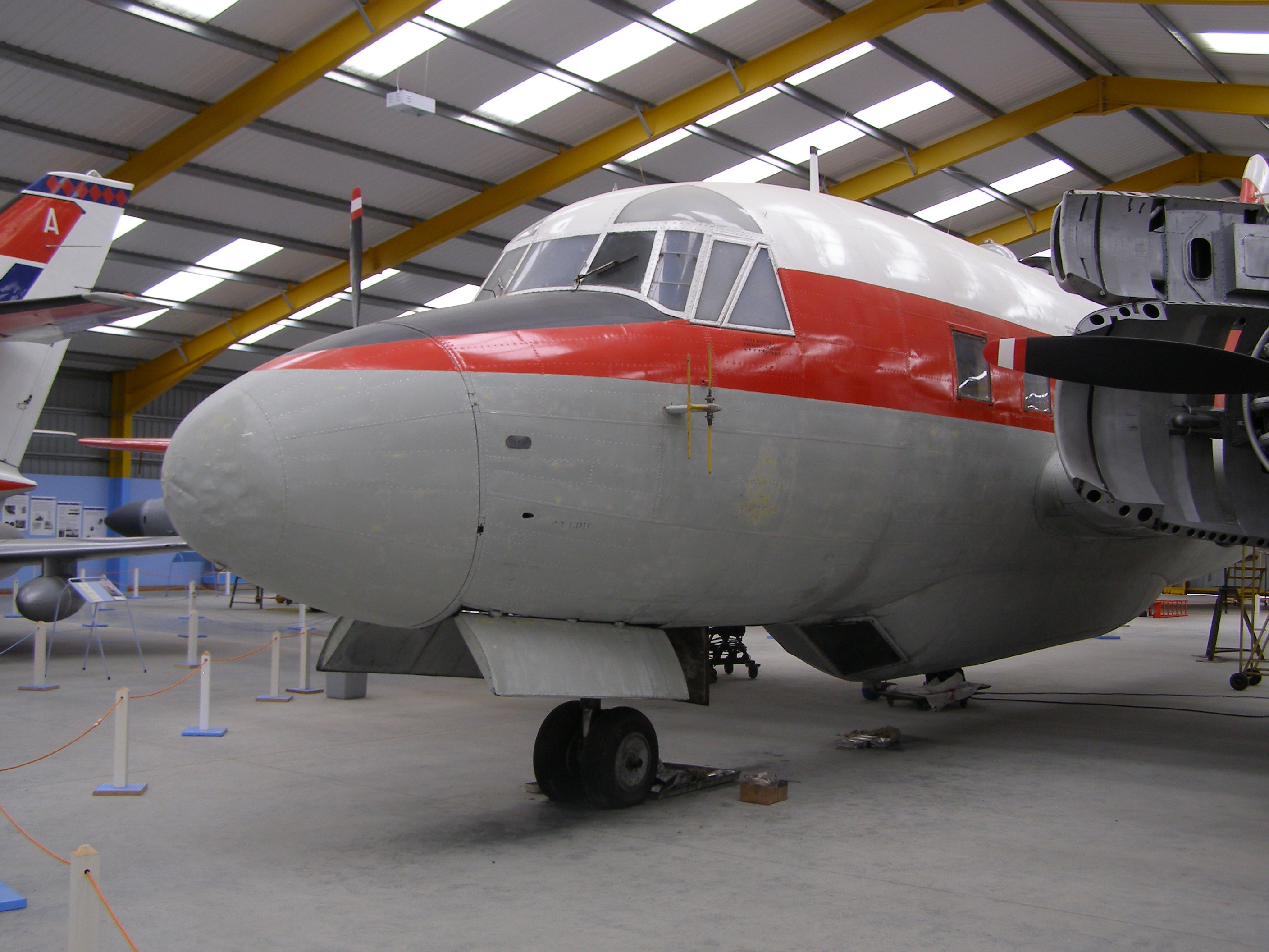 Royal Air Force Vickers Varsity T1 serial number WF369 on display at the Newark Air Museum, England